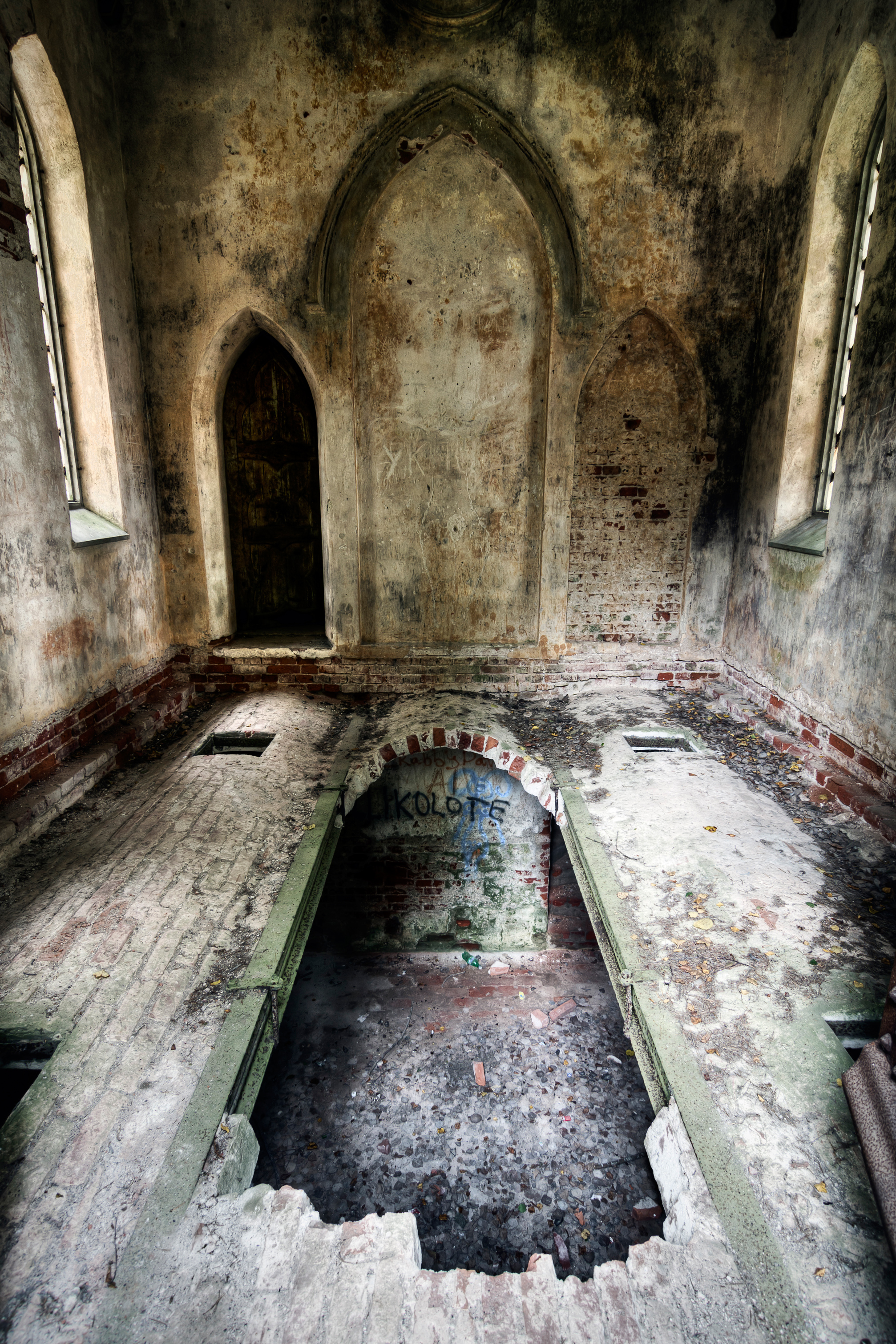 Inside the Rosen's funeral chapel in Mäetaguse